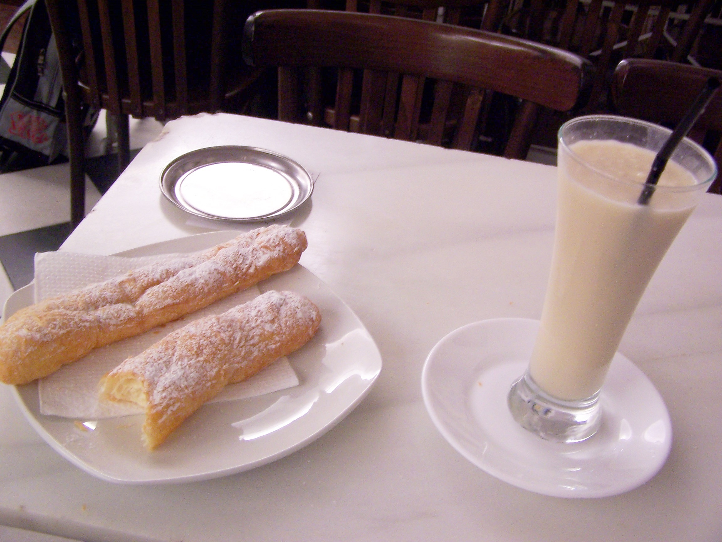 Horchata, a refreshing and delicious soft drink from Spain. Brightened version of the old photo.